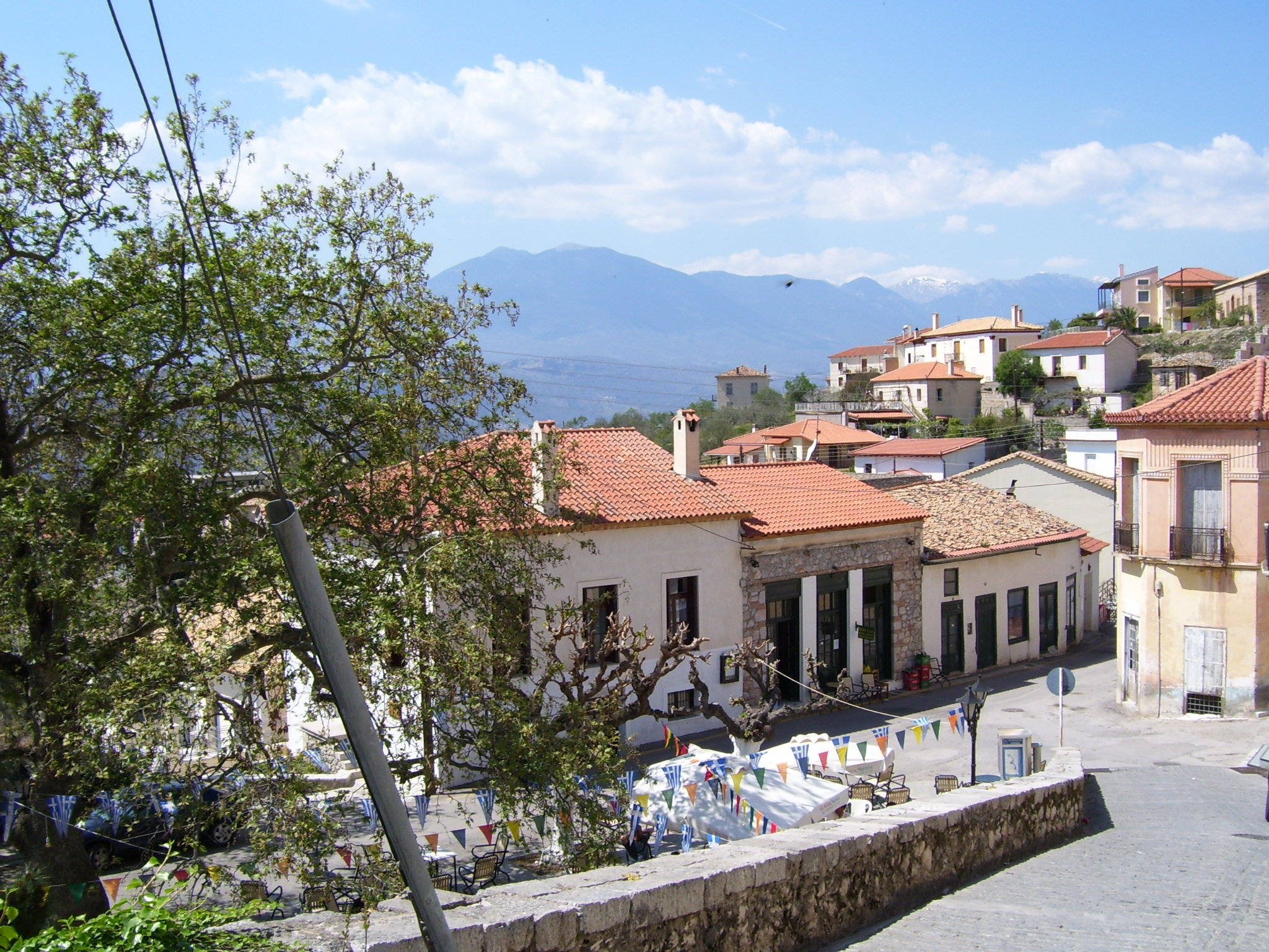 Hrisso village, near Delphi, Phokis